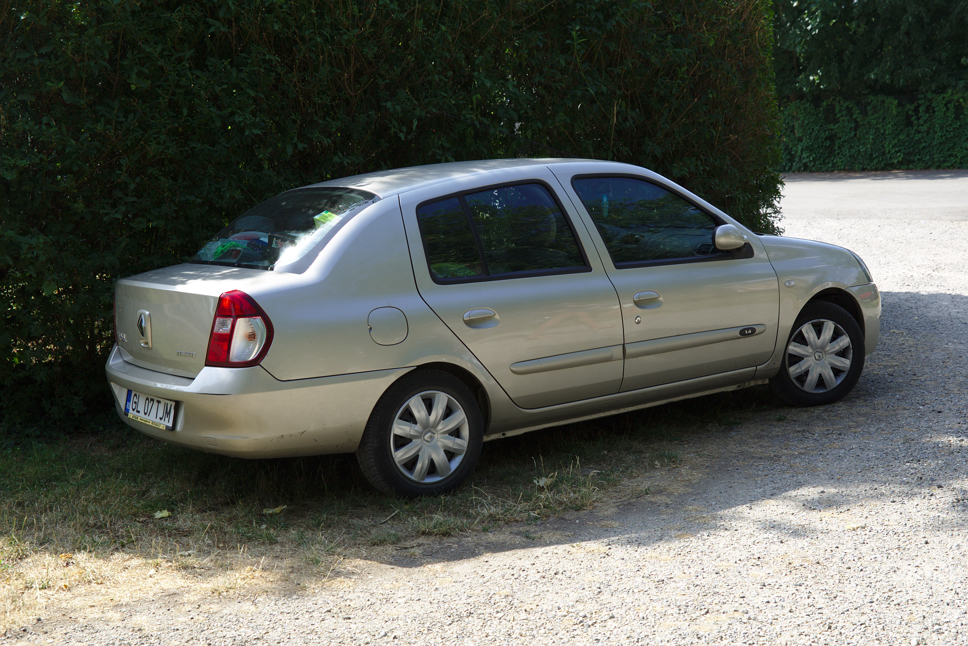 Renault Clio Symbol